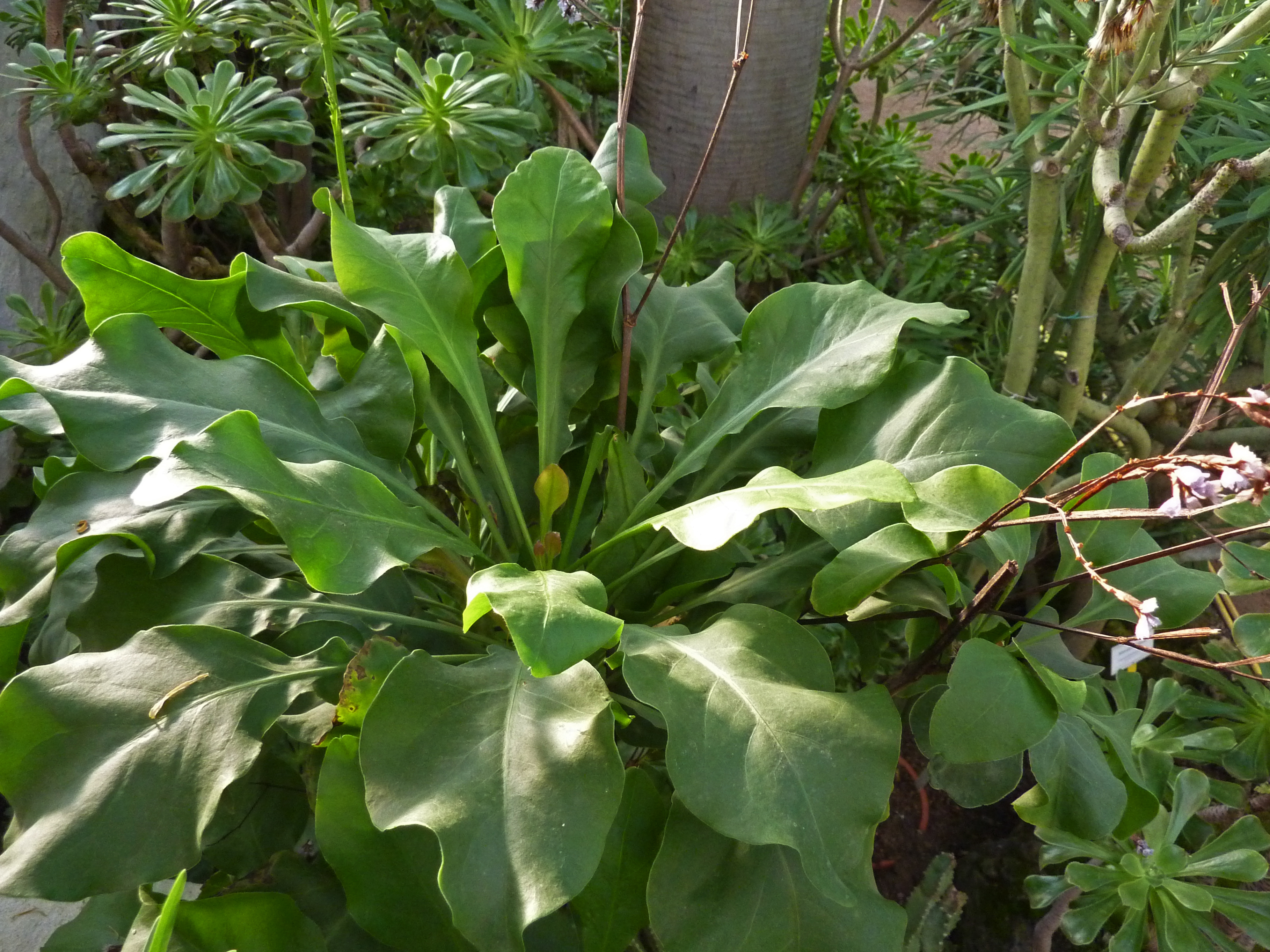 Limonium fruticans in the Botanical Garden, Berlin